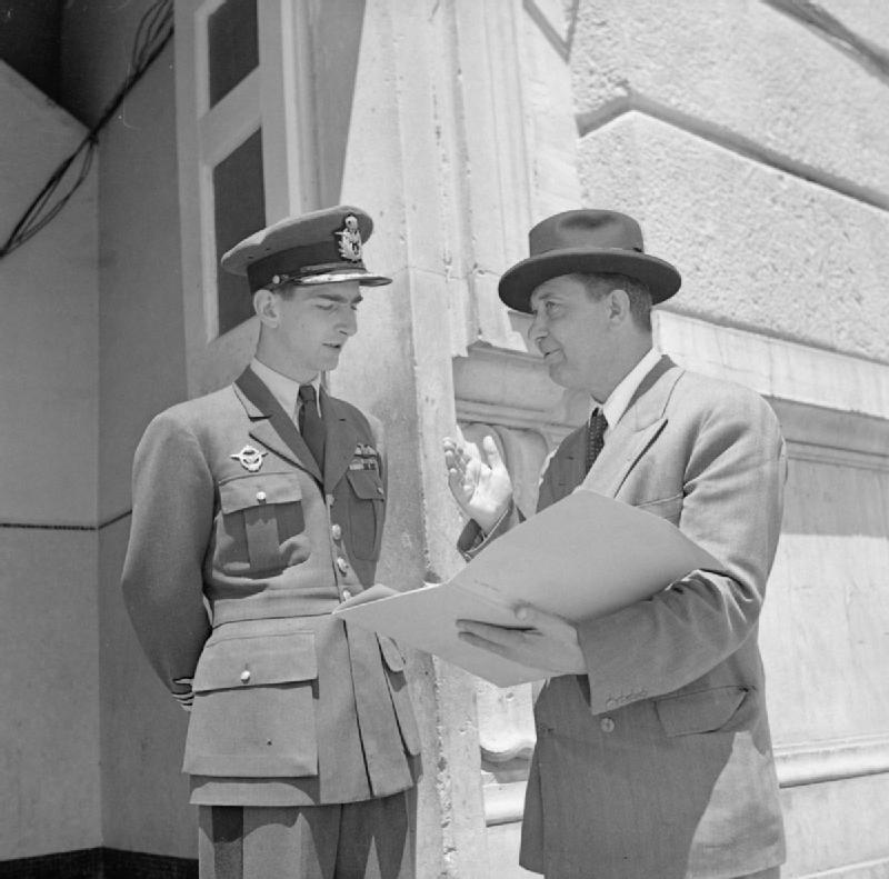 King Peter II conferring with the Prime Minister of the Yugoslav Government in Exile, Dr Ivan Subasic, following the latter's first meeting with Marshal Tito at Bari, Italy..